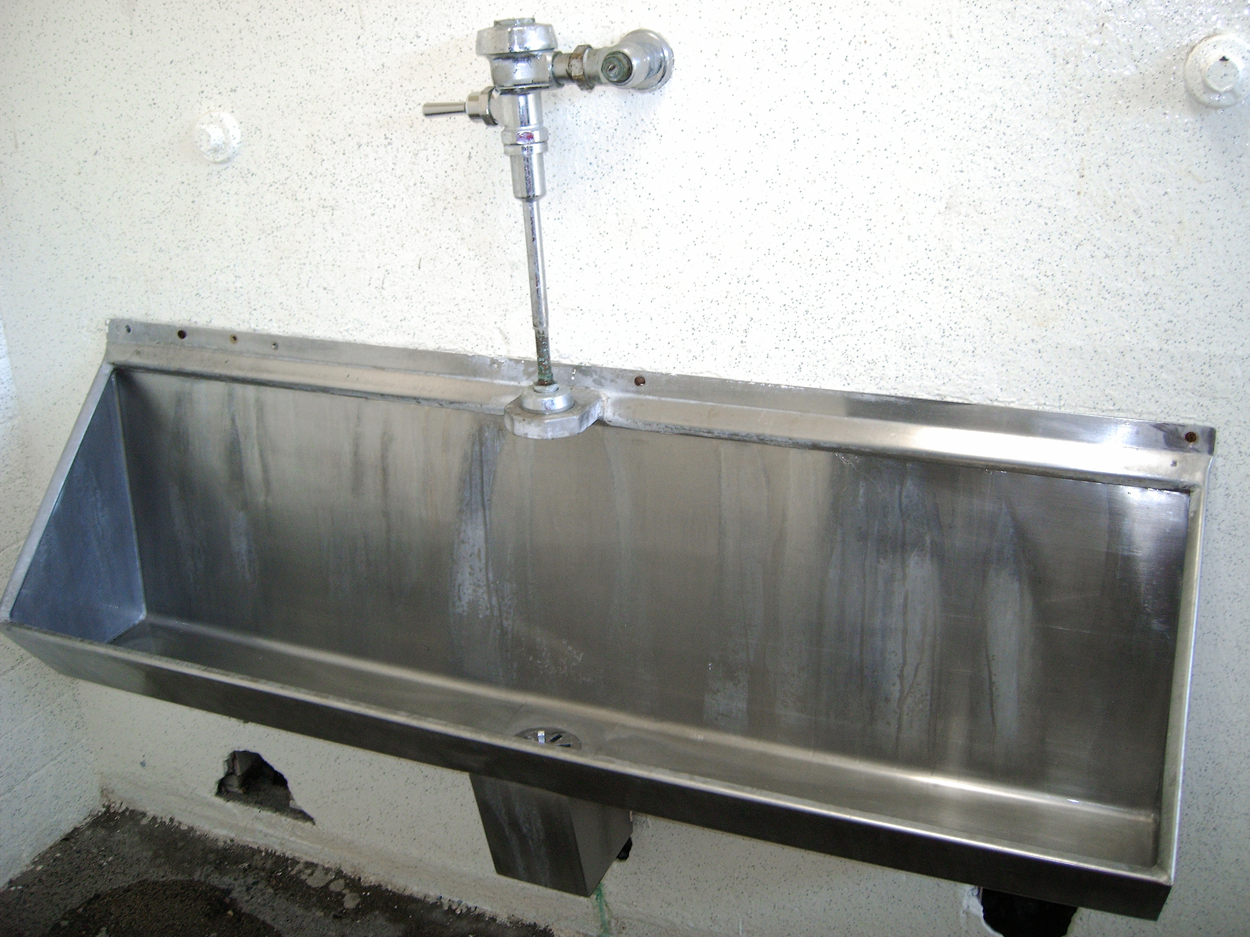 A urinal from California